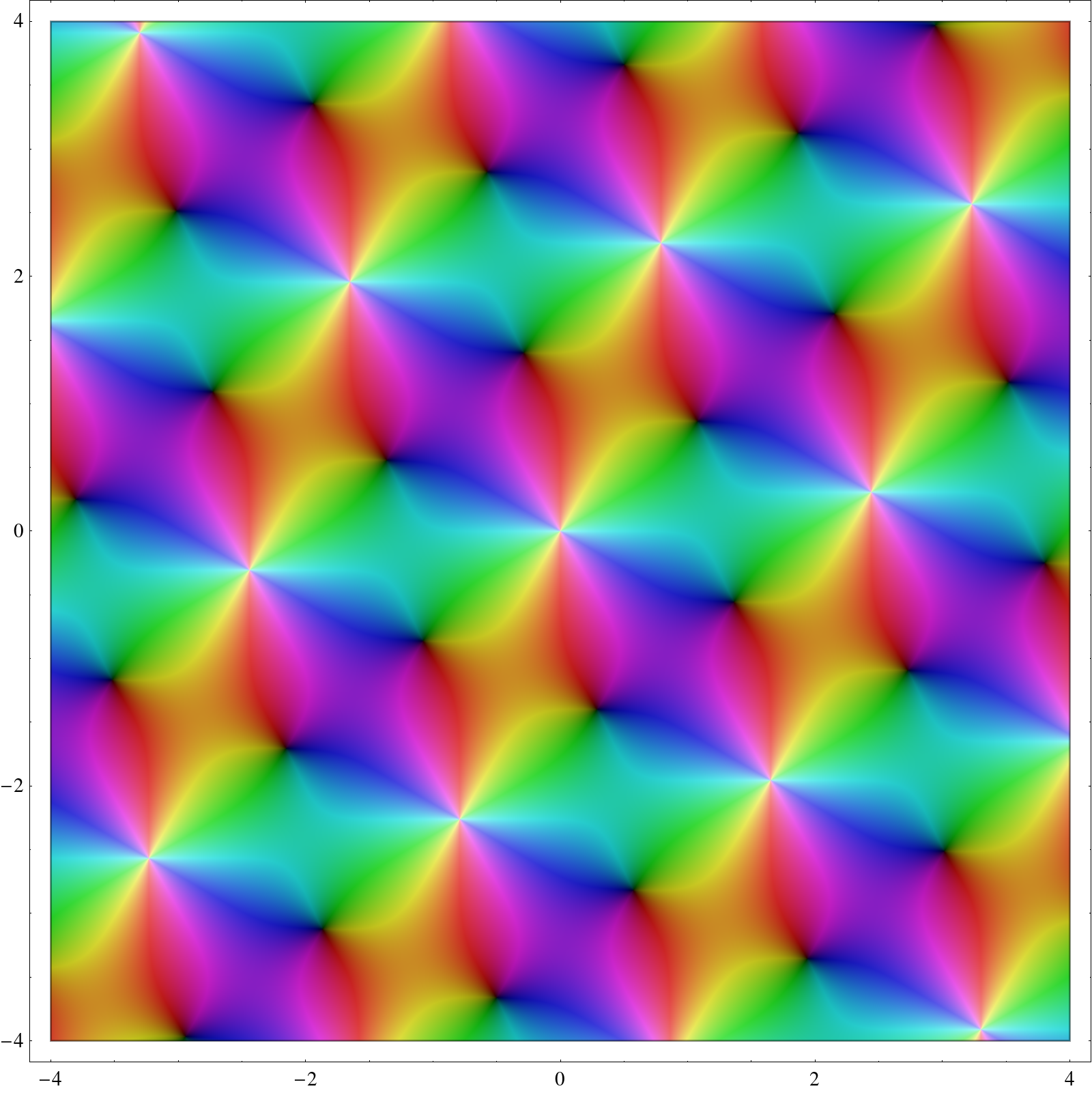 Complex graph of the Weierstraß elliptic function ℘ ( z ) {\displaystyle \wp (z)} , with invariants g 2 = 1 + i {\displaystyle g_{2}=1+i} and g 3 = 2 − 3 i {\displaystyle g_{3}=2-3i} .